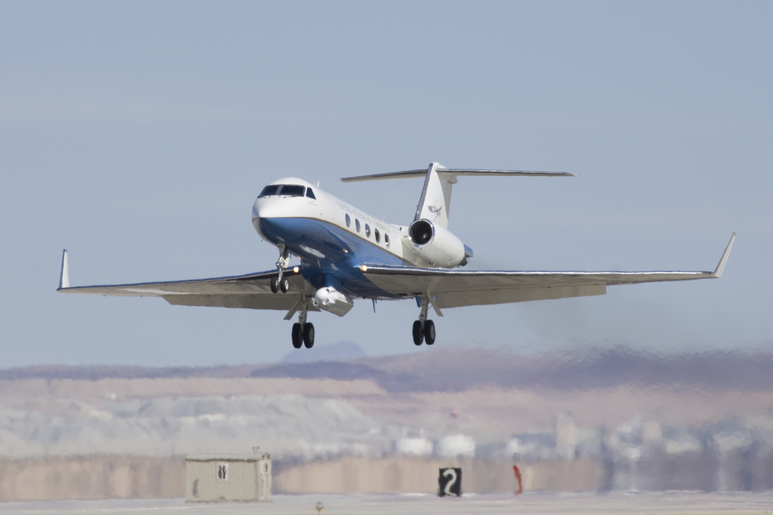 Shimmering heat waves trail behind NASA's Gulfstream-III research aircraft as it departs the Edwards AFB runway on a UAVSAR pod checkout test flight.